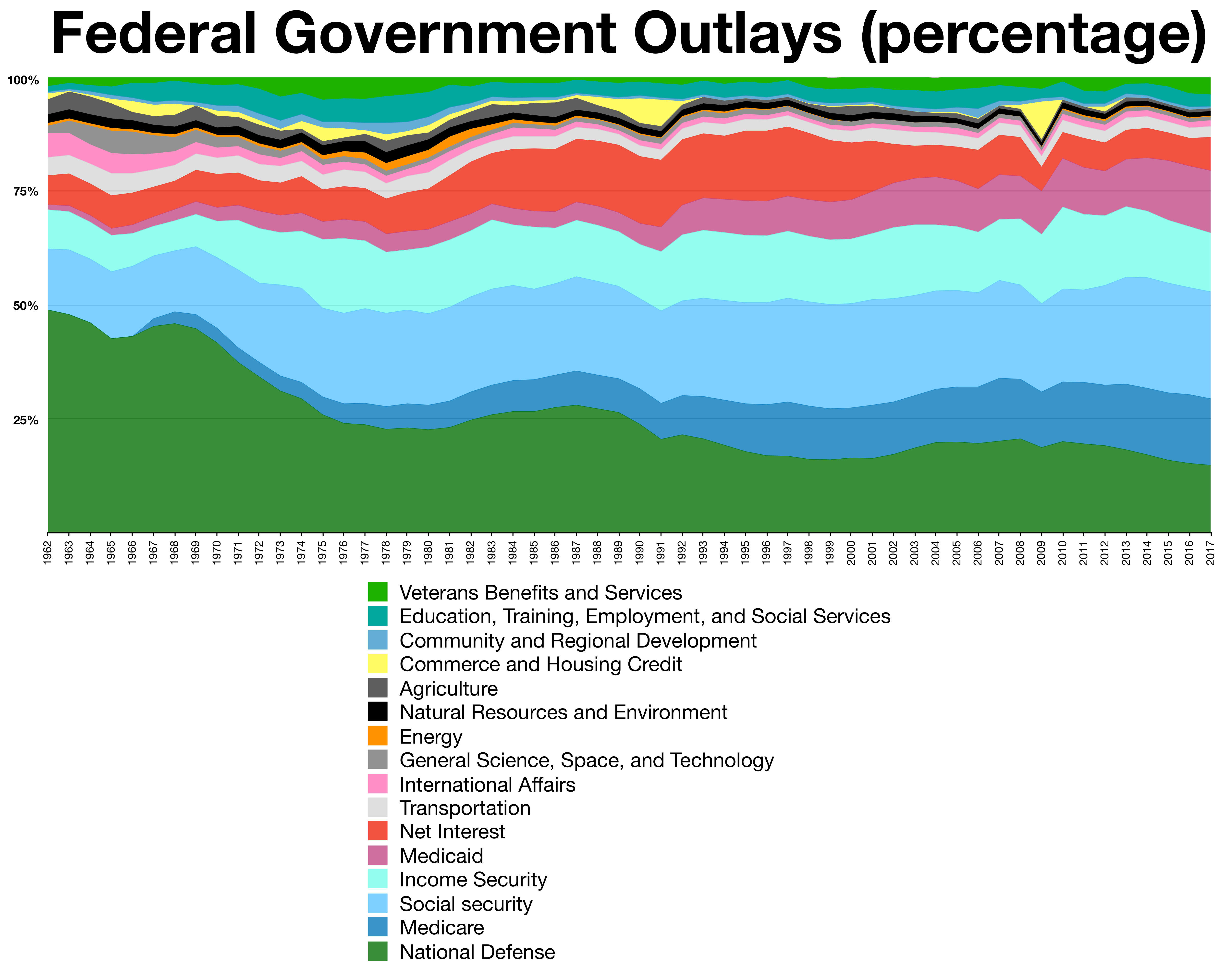 Federal budget outlays by percentage